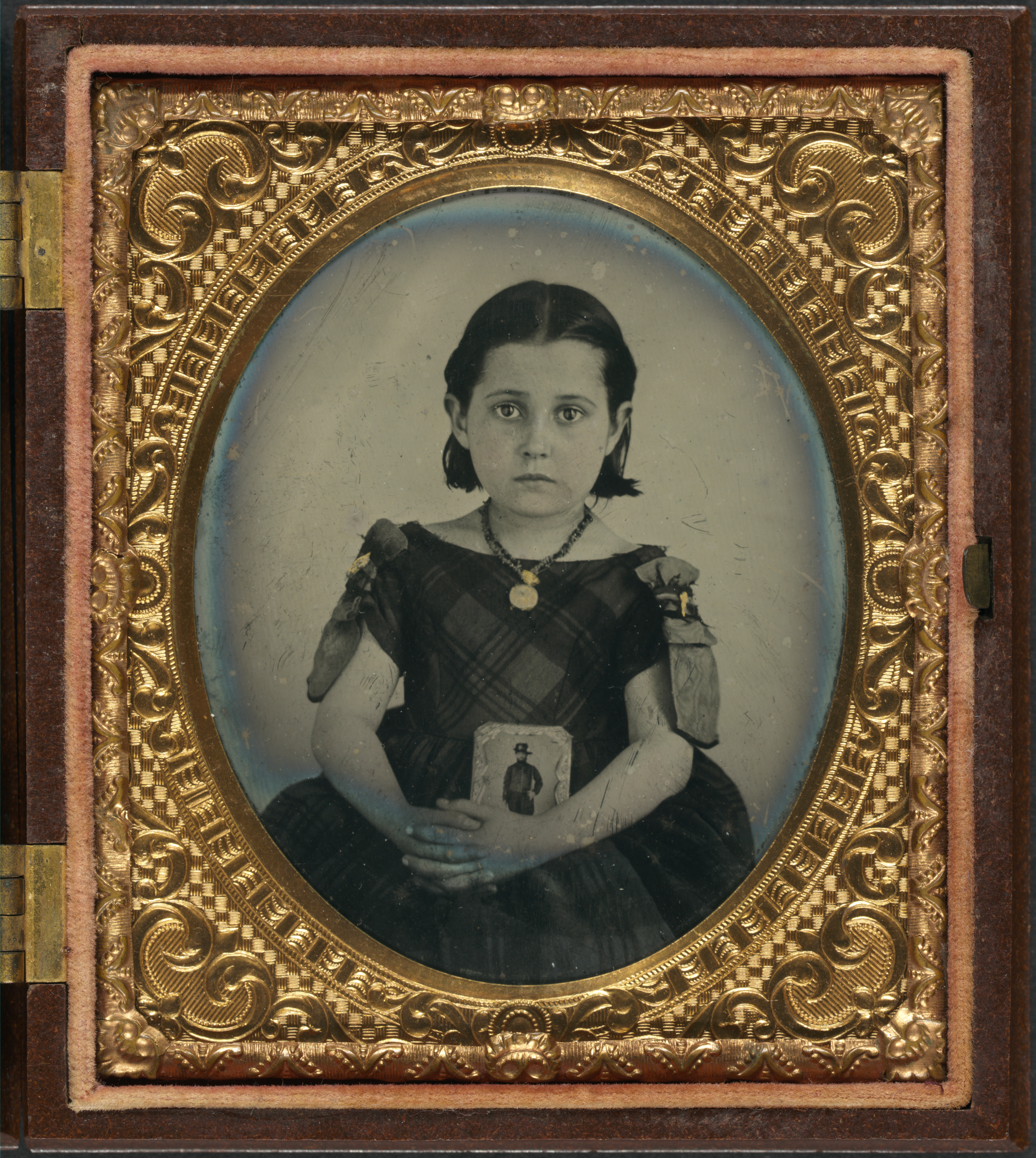 Photo shows a girl holding a framed image of her father. Judging from her necklace, mourning ribbons, and dress, it is likely that her father was killed in the war. (Source: Matthew R. Gross and Elizabeth T. Lewin, 2010)